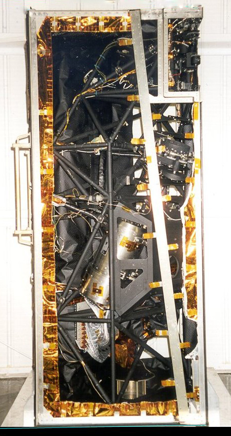 Faint Object Spectrograph FOS, HEIC